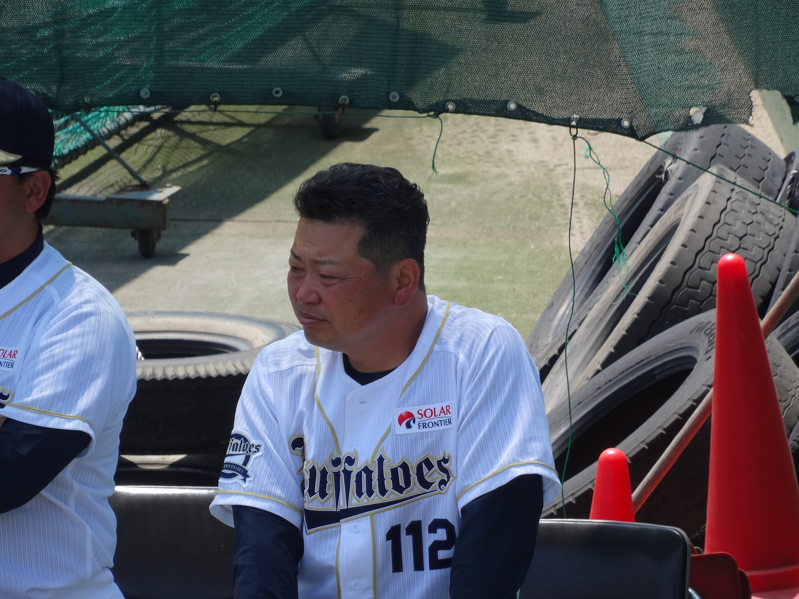 Fumiaki Kiyota, bullpen catcher of the Orix Buffaloes, at Kobe Sports Park Sub Baseball Ground.